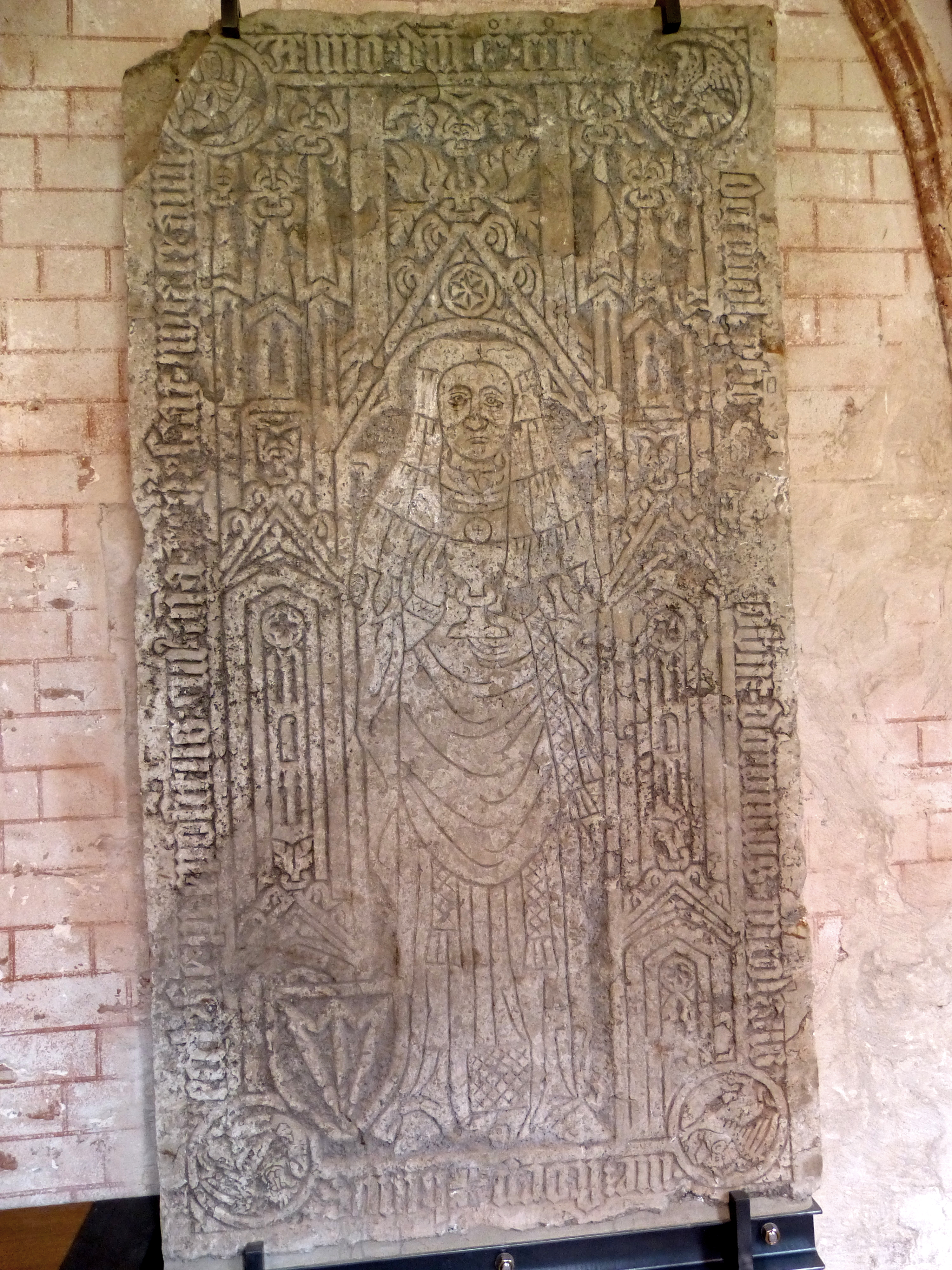 Dobbertin ( Mecklenburg ). Monastery: Cloisters ( 13th century ) - Ledger stone for Nikolaus Mezstorp, abbot of the monastery, died in 1417.